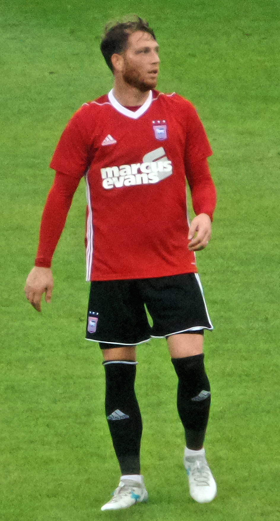 Joe Garner playing for Ipswich Town at Peterborough United on 18 July 2017